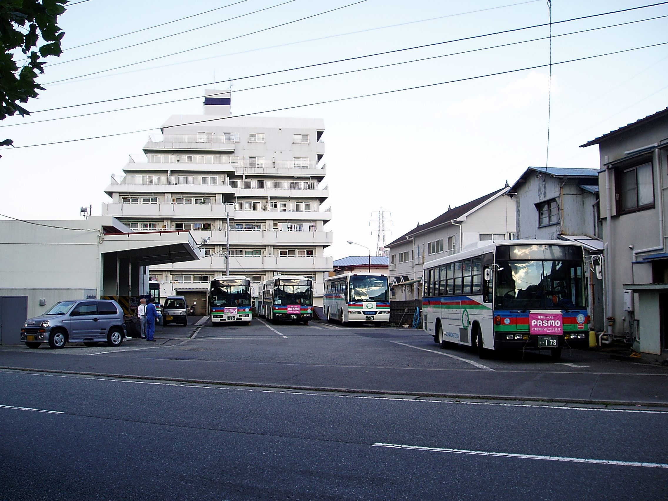 Izuhakone Bus Yugawara Depot